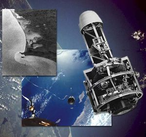 Collage of satellite images, including Corona (KH-4b?) imaging and film recovery system